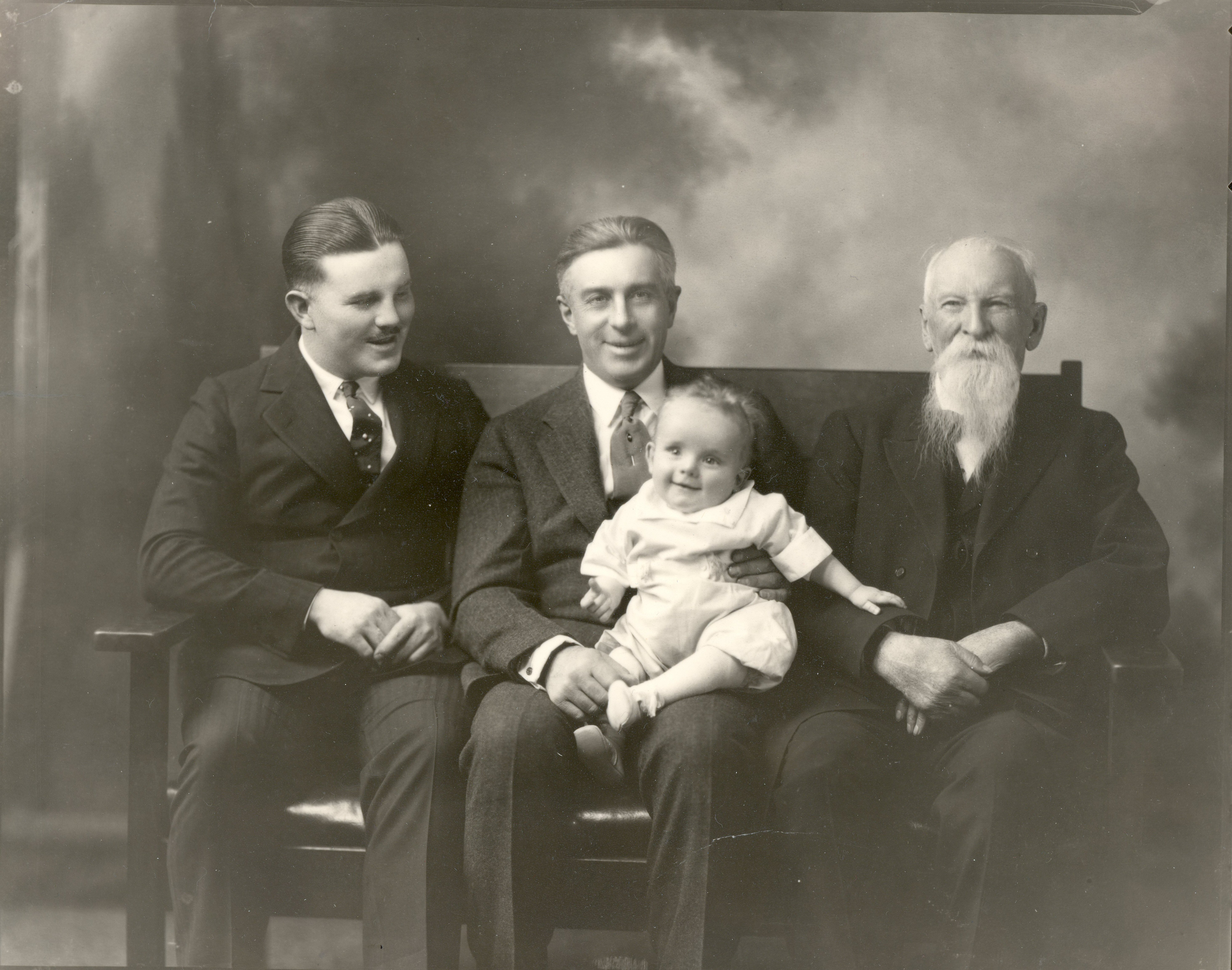 Three generations of Story's--Nelson Story Sr., Walter Story., T. Byron Story and Malcom Story. Date of photo 1922. Photo provided courtesy of the Gallatin County Historical Society, photo number P1010